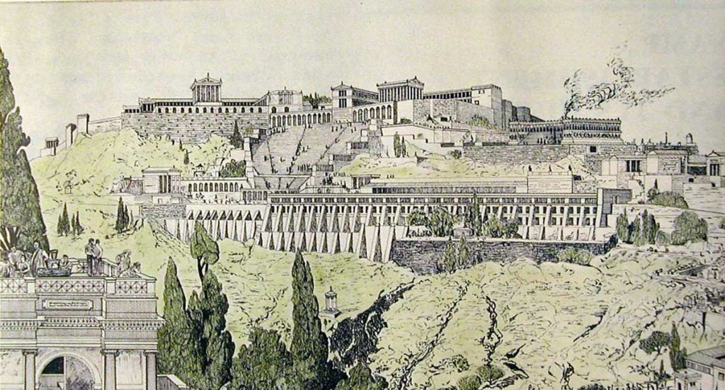 Drawing of ancient Pergamon. Scanned from the booklet of Pergamon Museum, Berlin. Image drawn by 19th century German archaeologist